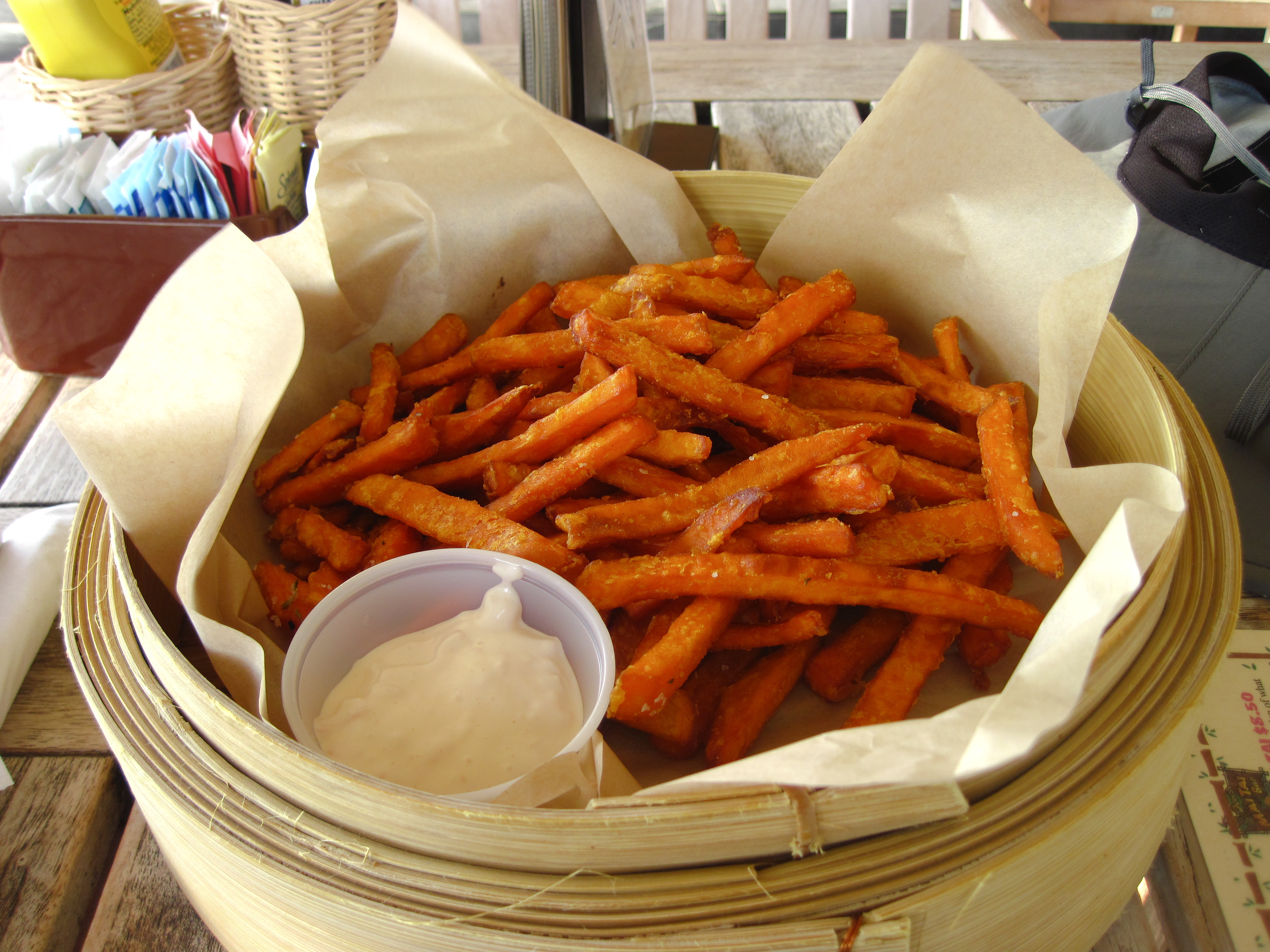 Picture of fries made from sweet potatoes.